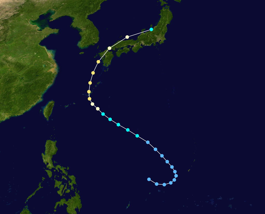 Typhoon Kinna 1991 track. Uses the color scheme from the Saffir-Simpson Hurricane Scale.